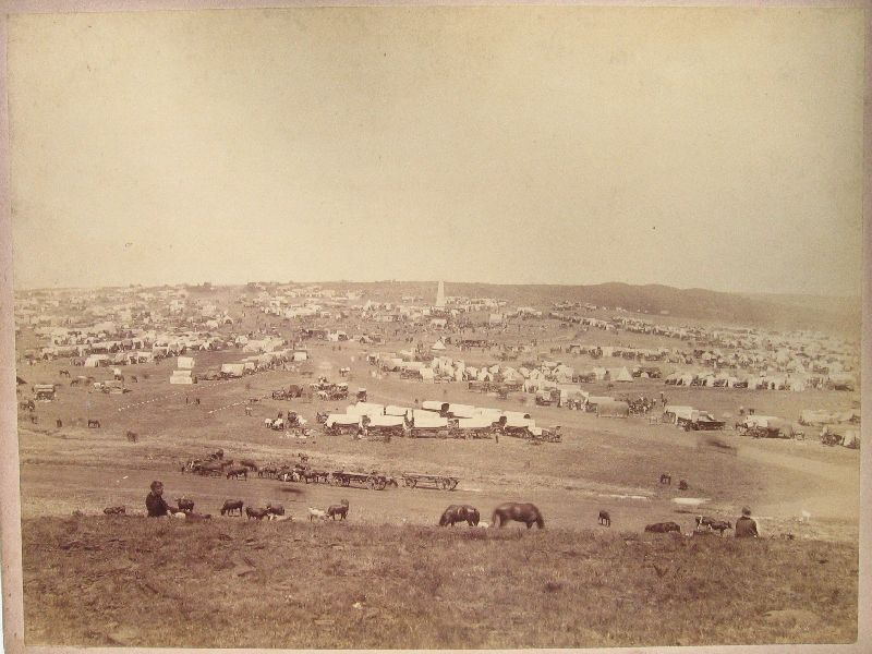 South Africa - Transvaal - Exposure of the Paardekraal Monument, the place of the pledge to fight against the Englishmen in the year 1881. 10 years later